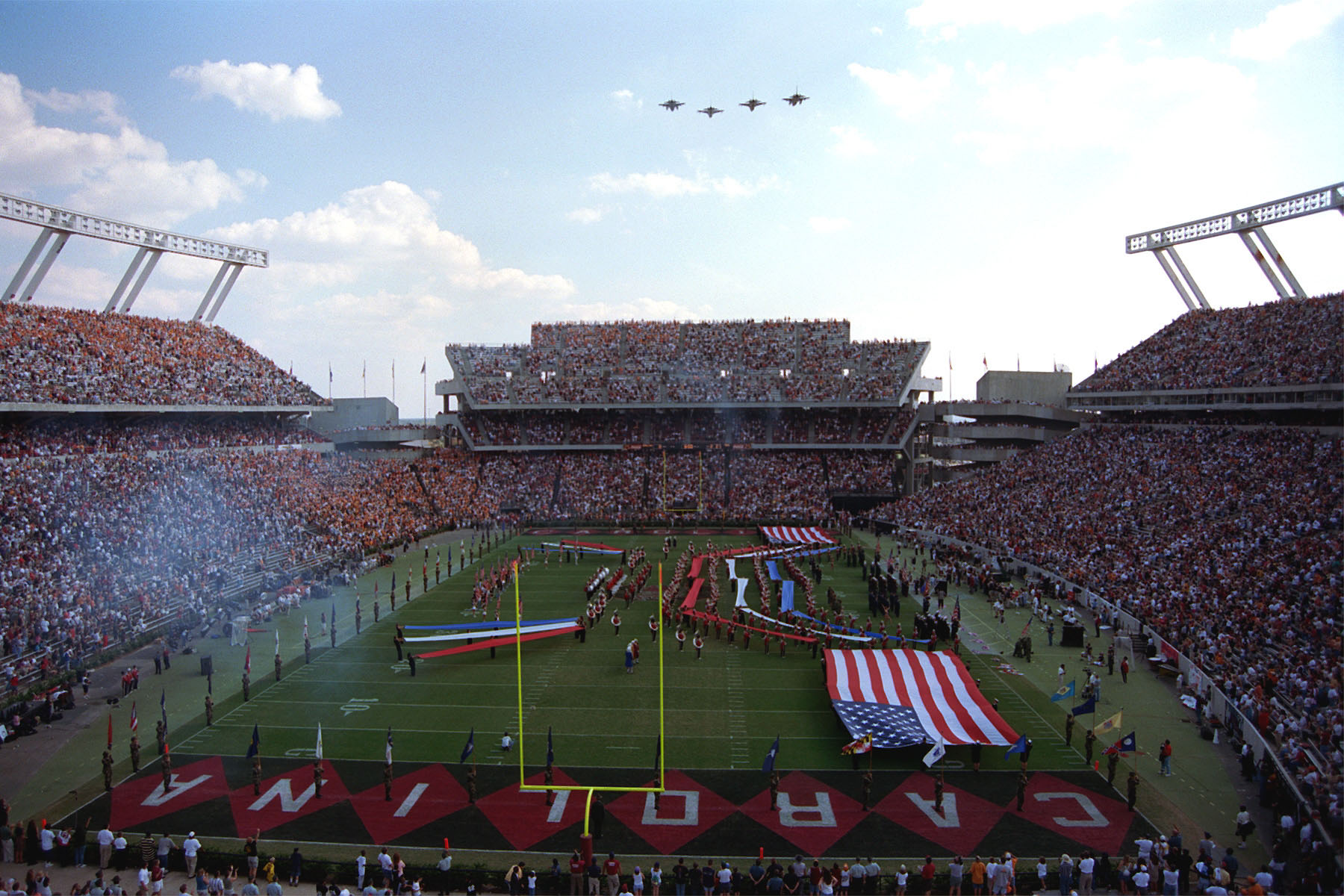 Four F-16Cs from the 169th Fighter Wing at McEntire Air National Guard Station, Eastover, South Carolina, perform a low-level flyover to conclude the half-time festivites on Armed Forces Appreciation Day at the University of South Carolina's Williams-Bryce Stadium in Columbia South Carolina. (Released to Public)